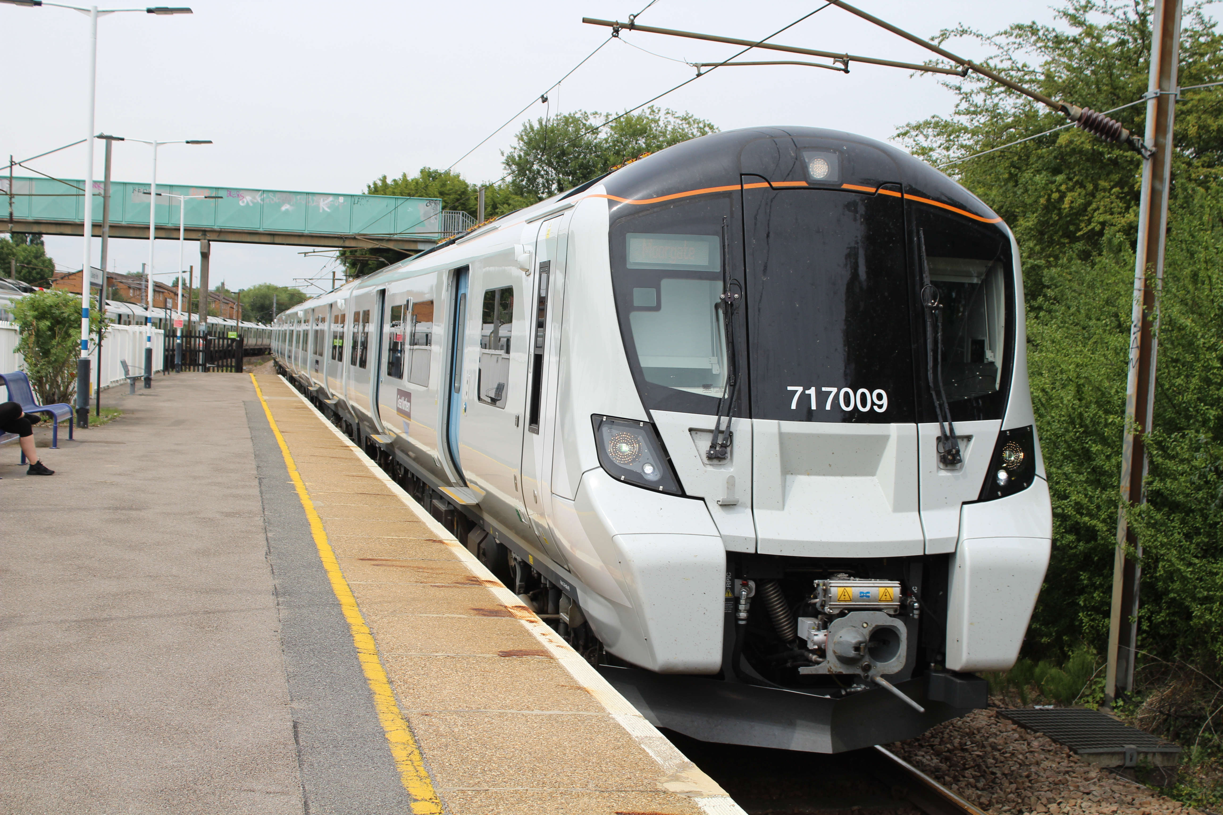 GTR's Great Northern 717009 arrives into Oakleigh Park with a Moorgate service.